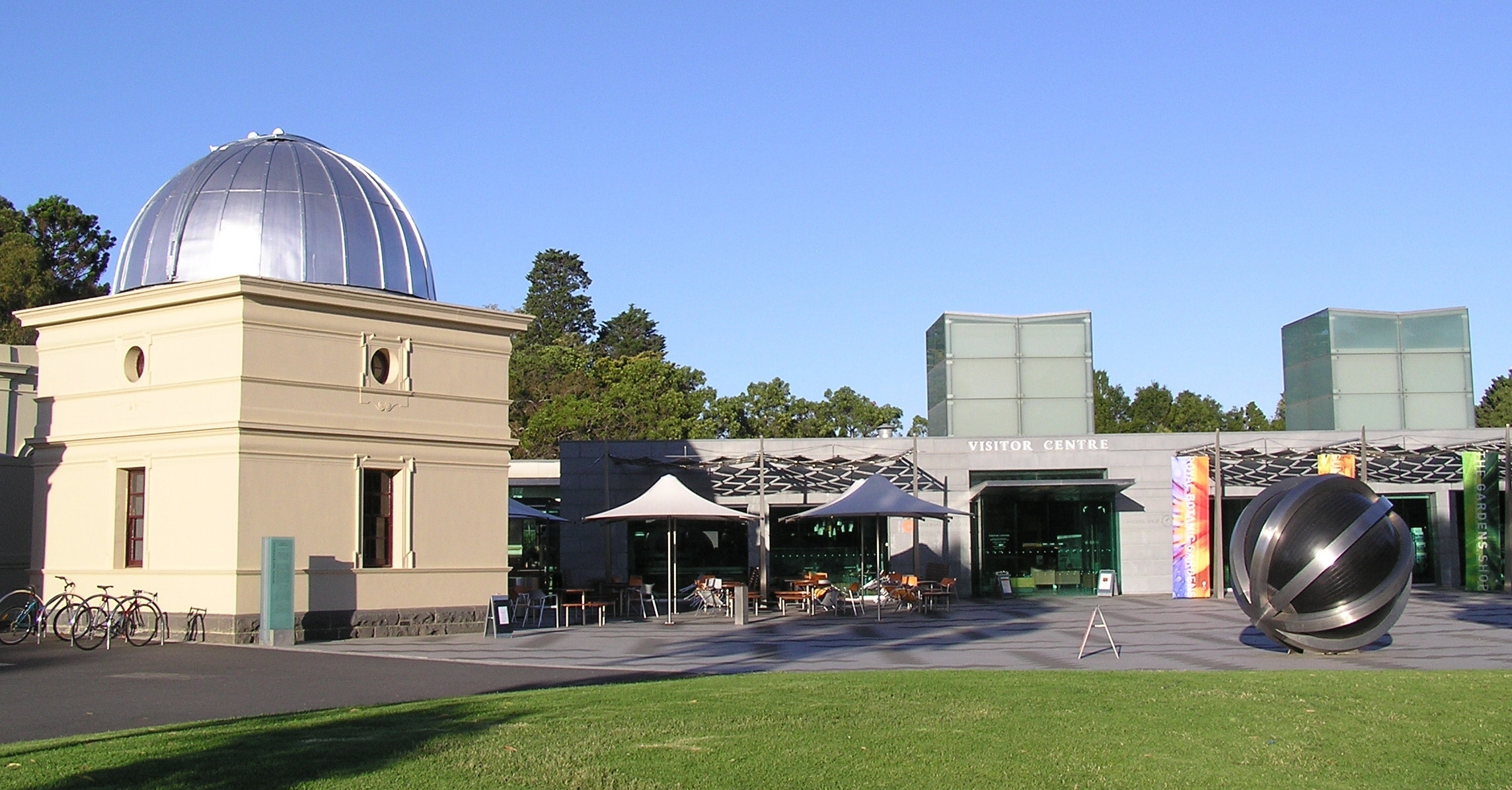 Art Sculpture Near Observatory Cafe & The Gardens Shop